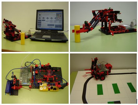 Fischertechnik educational robots in the classroom. Examples of industry, pneumatics and movil robots, controlled by interface to PC.